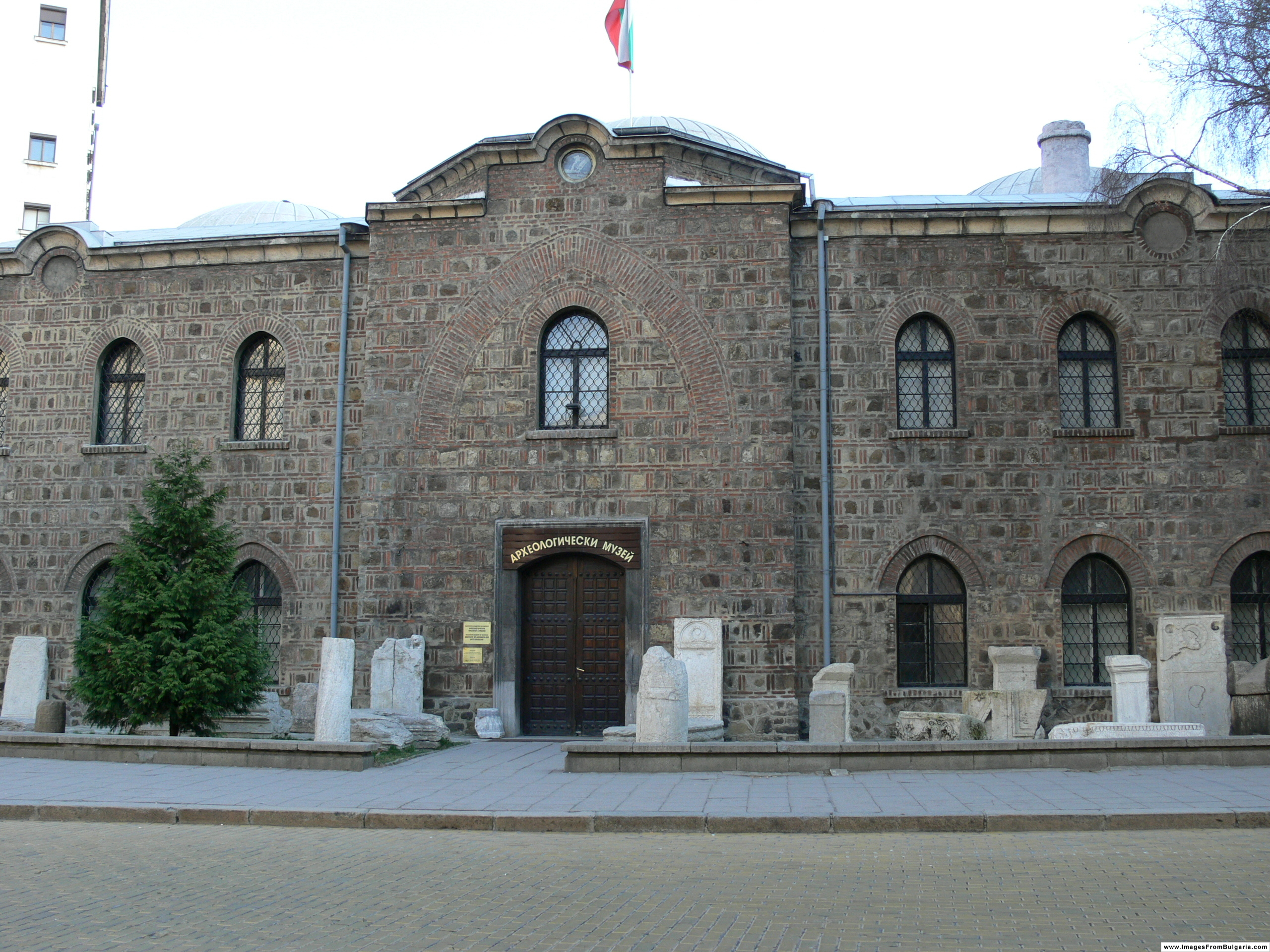 National Archaeological Museum. Sofia, Bulgaria